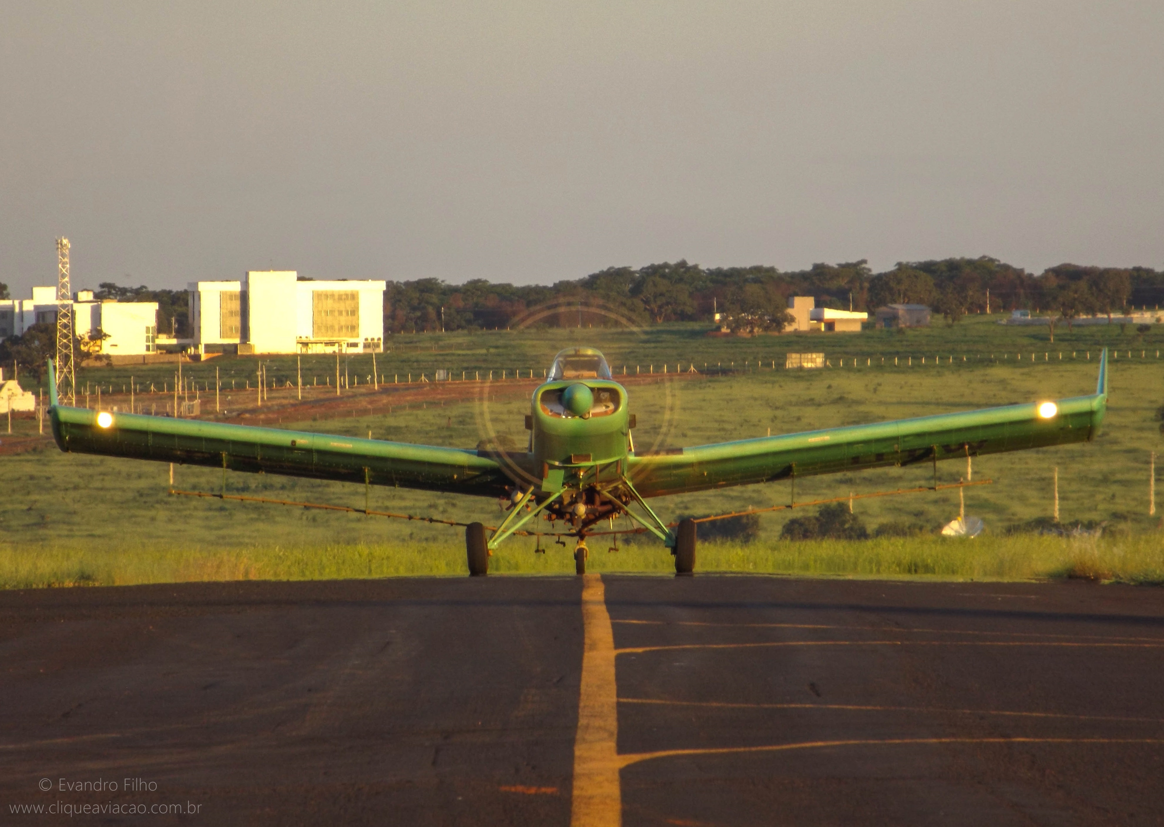 Embraer Ipanema 202A in the Aeroclube de Ituiutaba, Brazil. Photo: Evandro Filho